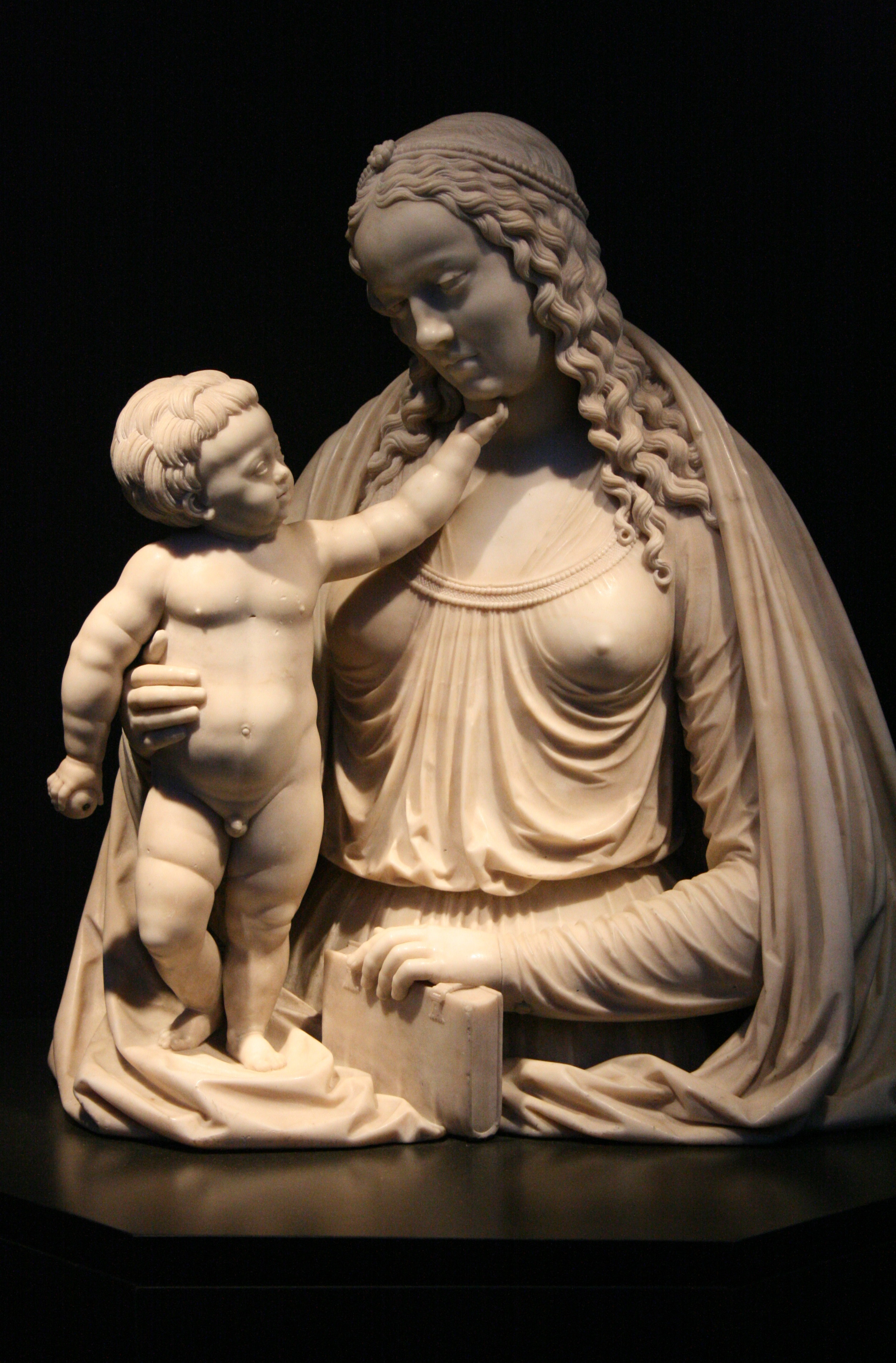 Conrat Meit: Madonna and child (ca. 1525). St. Michael and St. Gudula Cathedral, Brussels (Belgium)